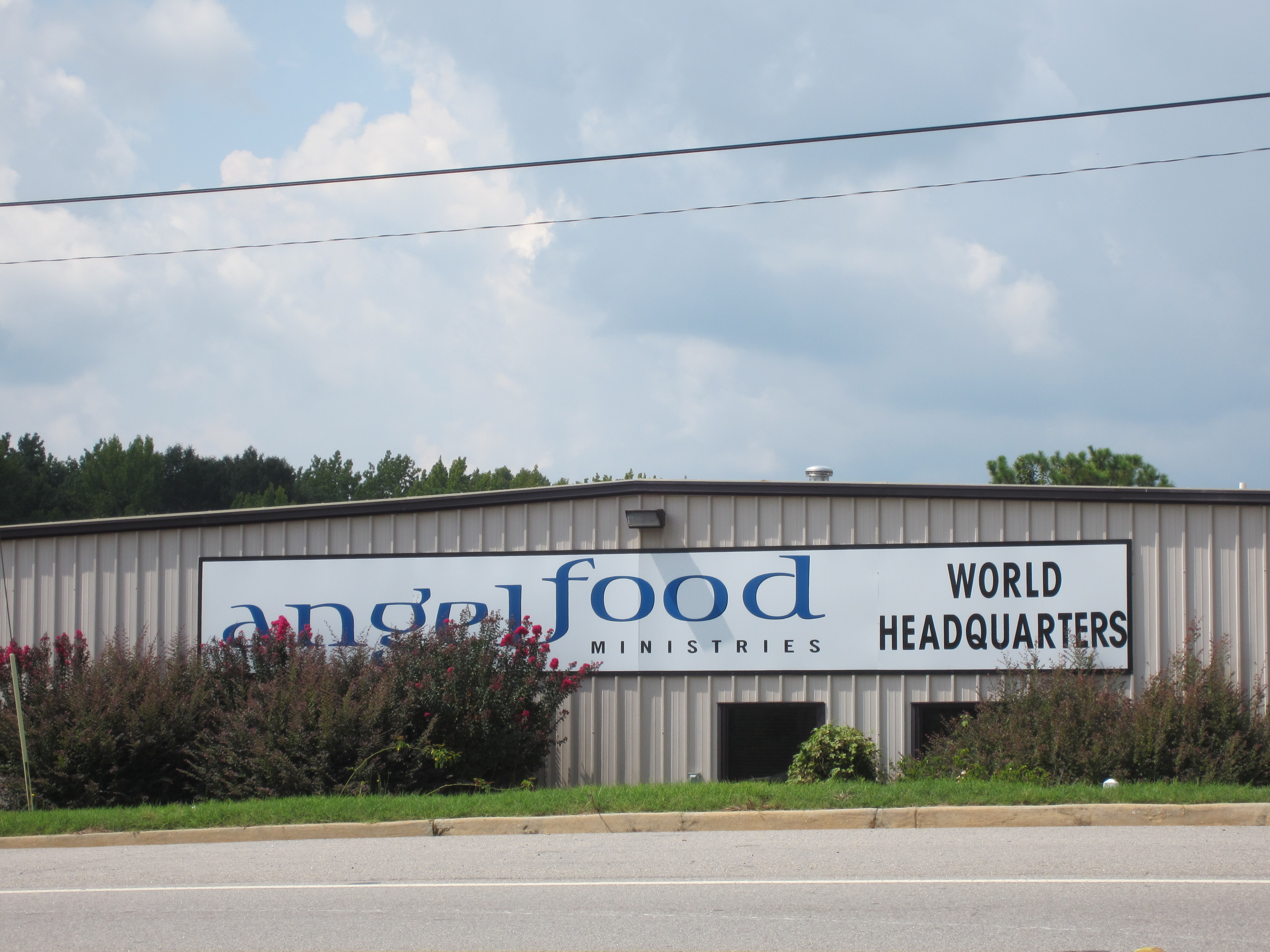 Angel Food Ministries former headquarters and day care facility, Monroe, GA